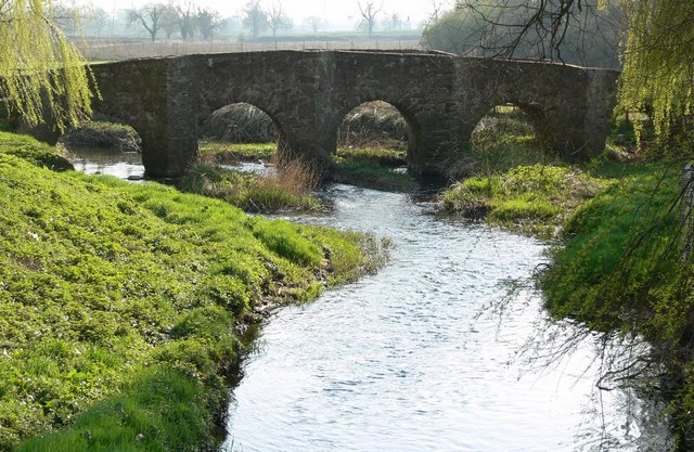 The Packhorse Bridge Anstey, crossing Rothley Brook.